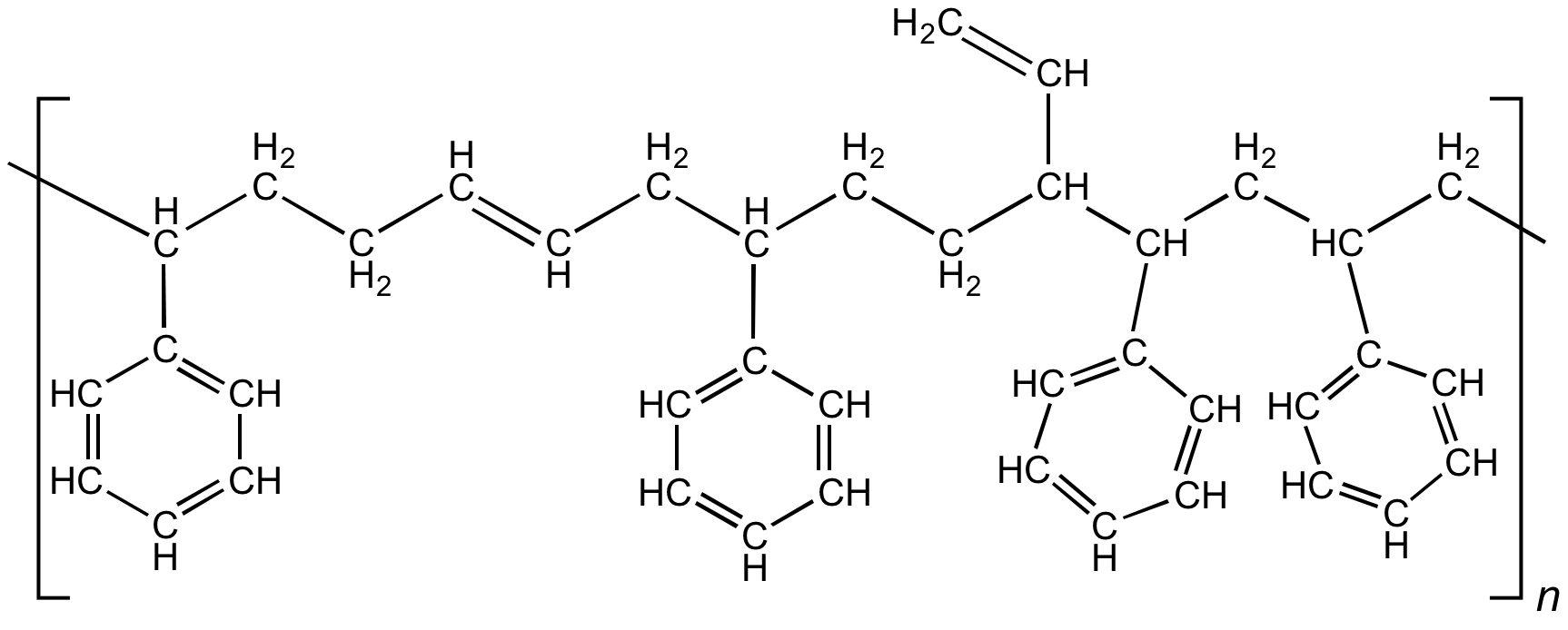 A depiction of a subunit of Styrene-butadiene (SBR) with all atoms shown